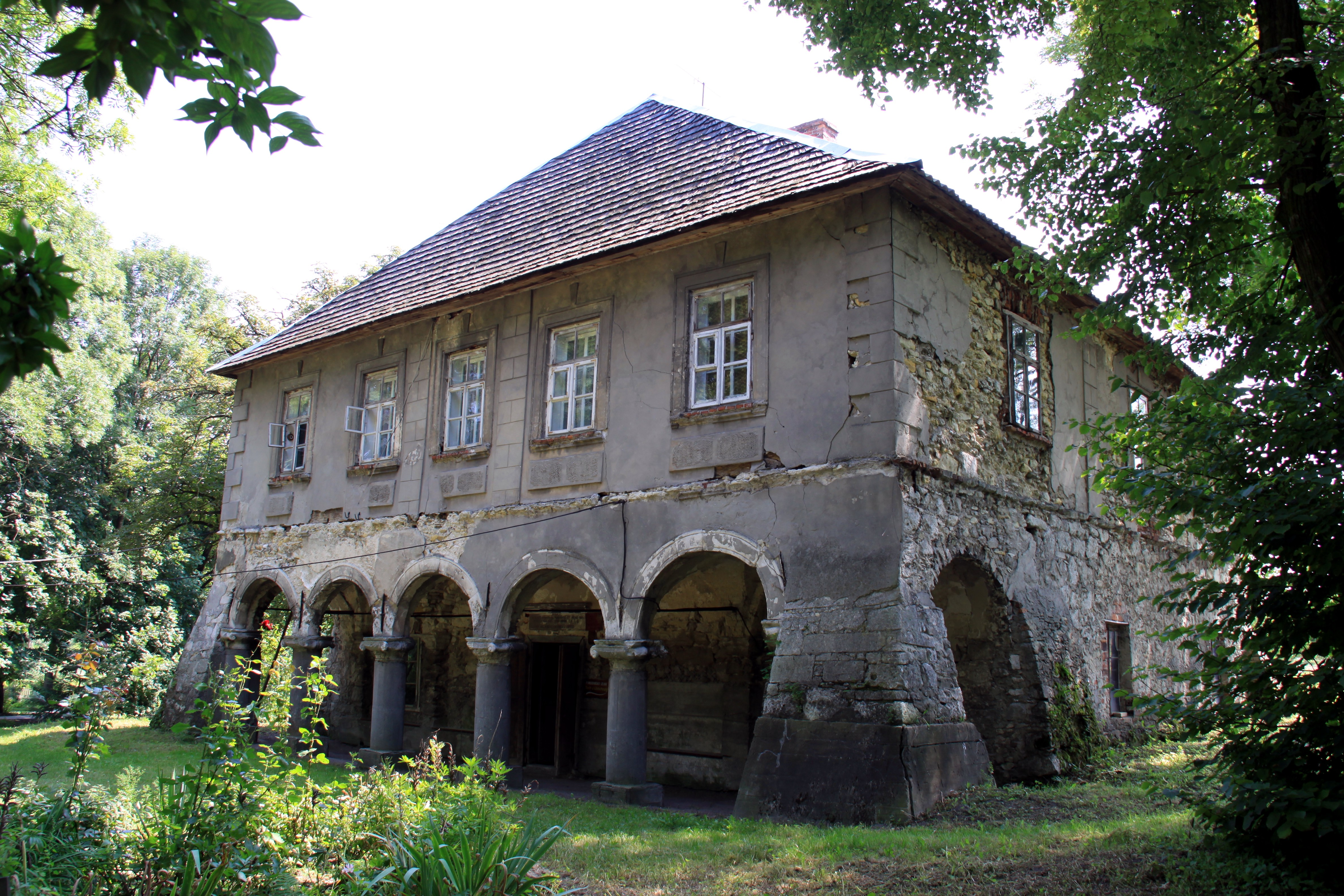 Widuchowa